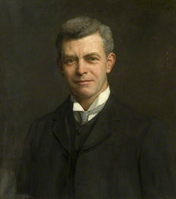 Olivier, Herbert Arnould; Sir Charles Archibald Nicholson, 2nd Bt (1867-1949), Architect and Inhabitant of Porters; Southend-on-Sea Borough Council